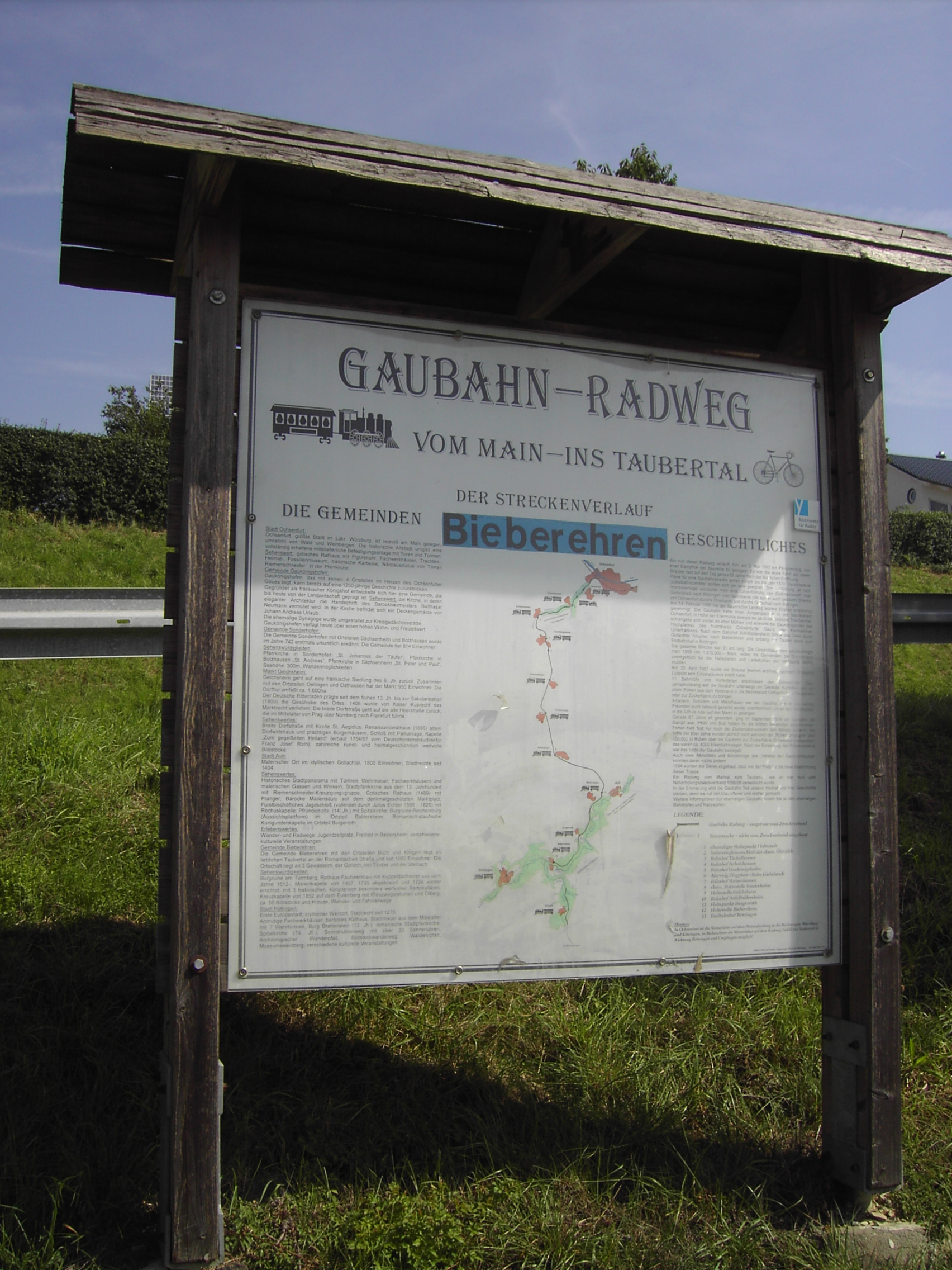 Info board about the former Gaubahn Ochsenfurt - Weikersheim, which is now used as a cycle track.